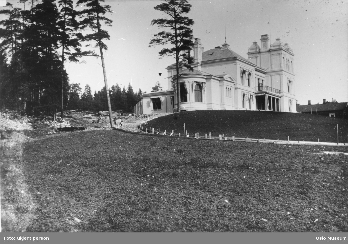 The former Norwegian glass works Høvik verk, originally Høvik glassverk